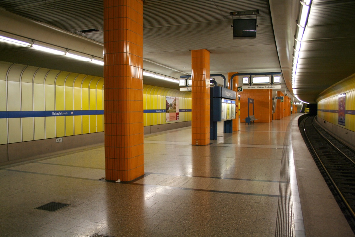 Munich subway station Holzapfelkreuth